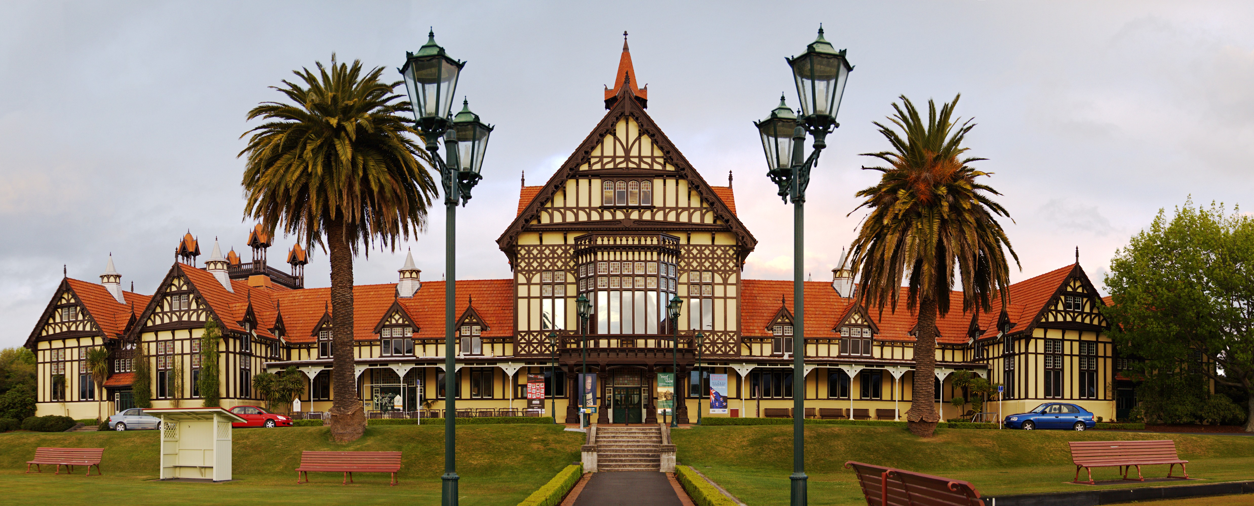 A panorama of the Rotorua Museum at sunset from 9 shots by my Nikon D50, created by Hugin/autopano-sift/enblend and touched up with GIMP. Full sized version available upon request (I know the most left image is blurred. But I cannot fix it since I'm no longer in Rotorua). New Zealand Historic Places Trust Register number: 141.